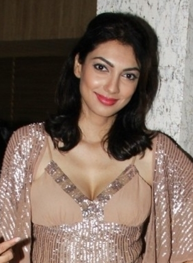 Yukta Mookhey in 2017.